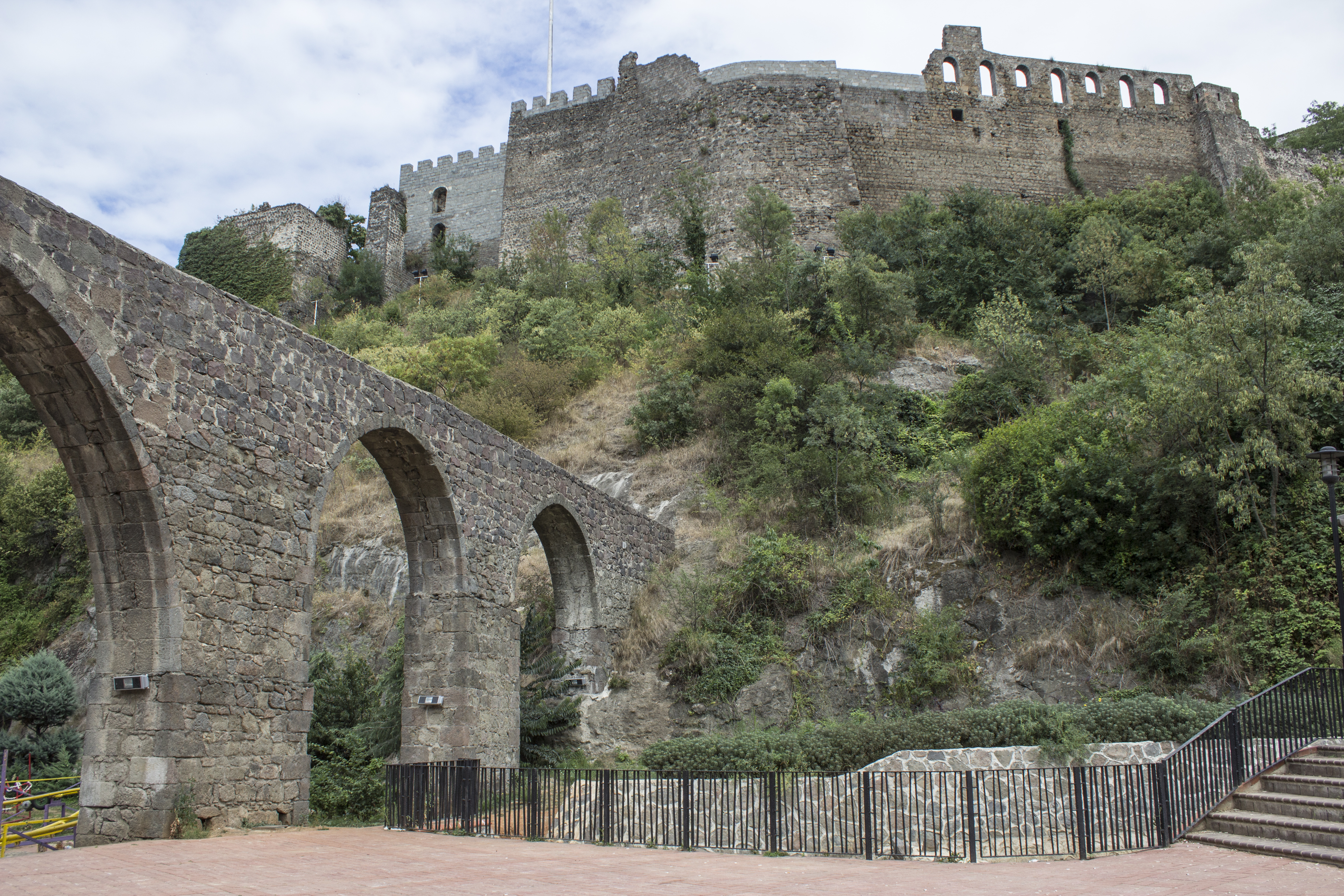 Zagnos valley view of Trabzon, Turkey.